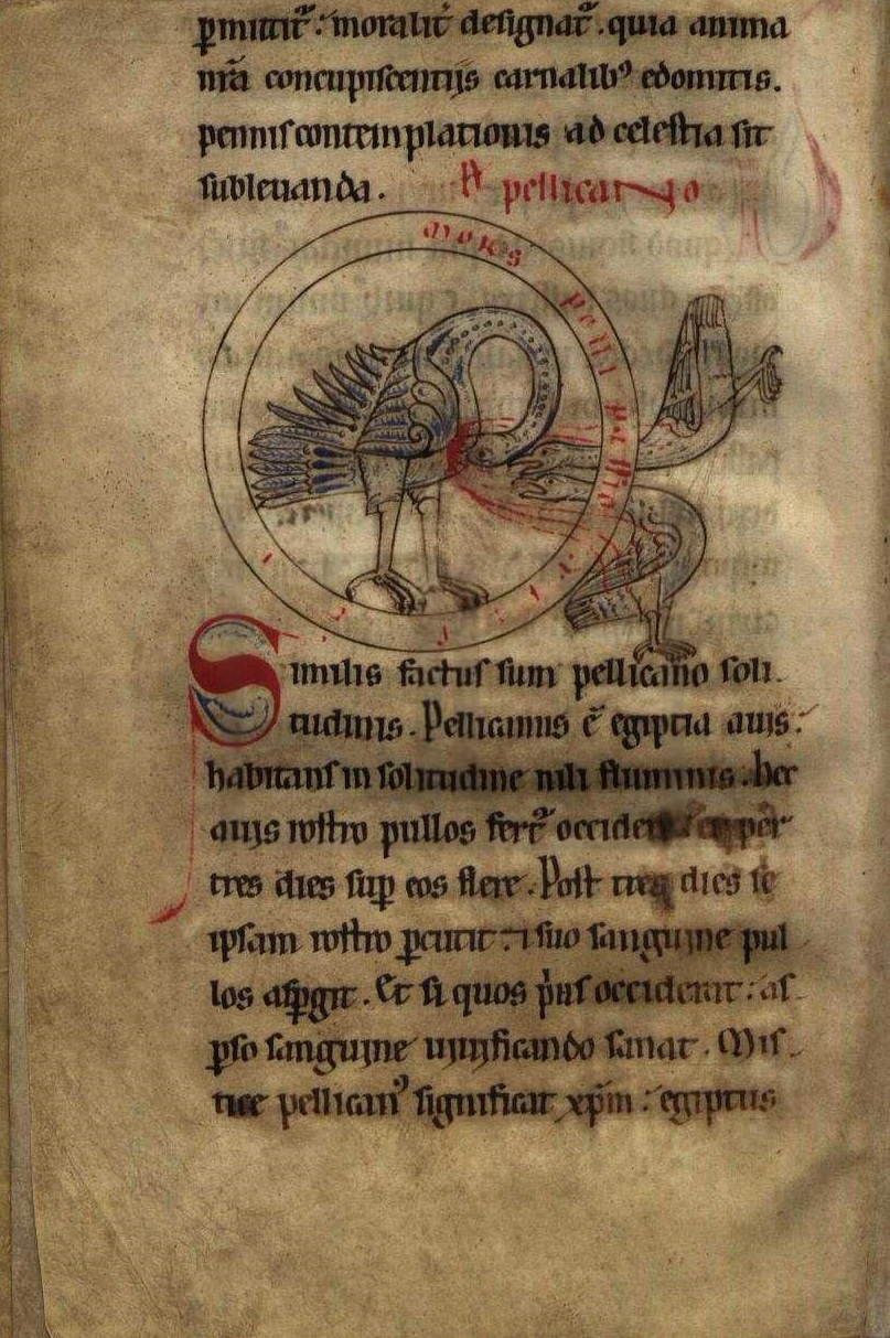 Livro das Aves: the Pelican